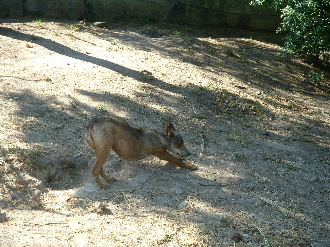 Iberian Wolf (Canis lupus signatus) at Lisbon's Zoo (Portugal).